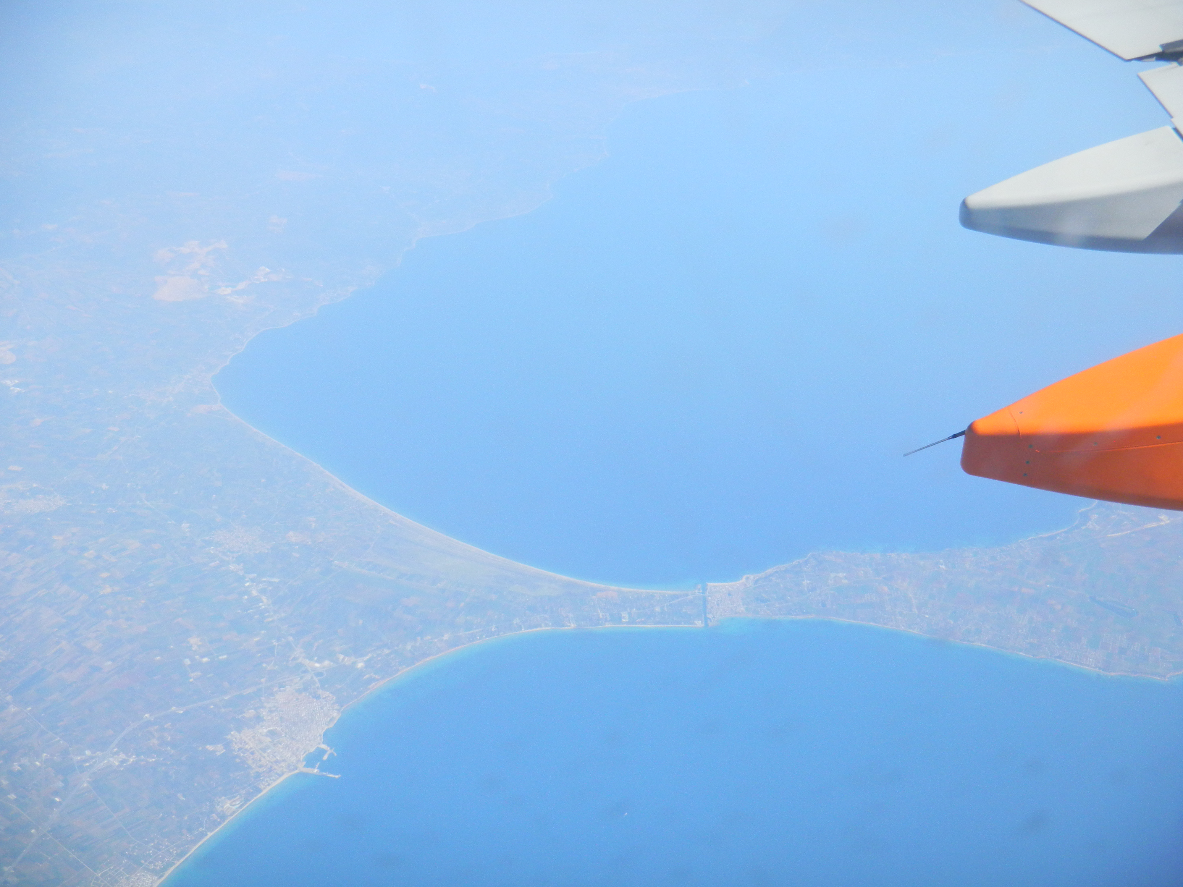 Aerial view of the Kassandra Peninsula, Chalcidice, Greece.